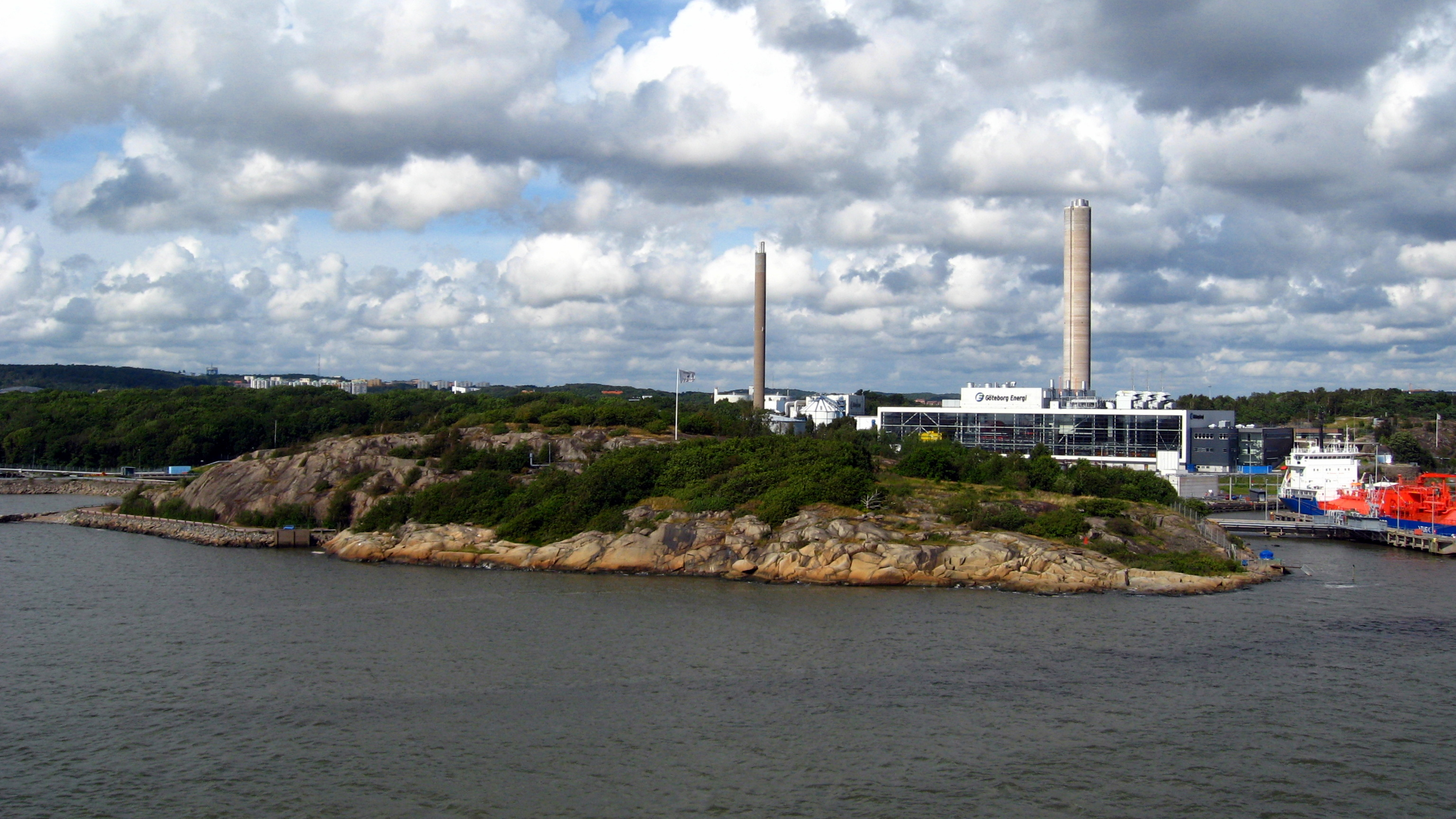 Gothenburg, Sweden